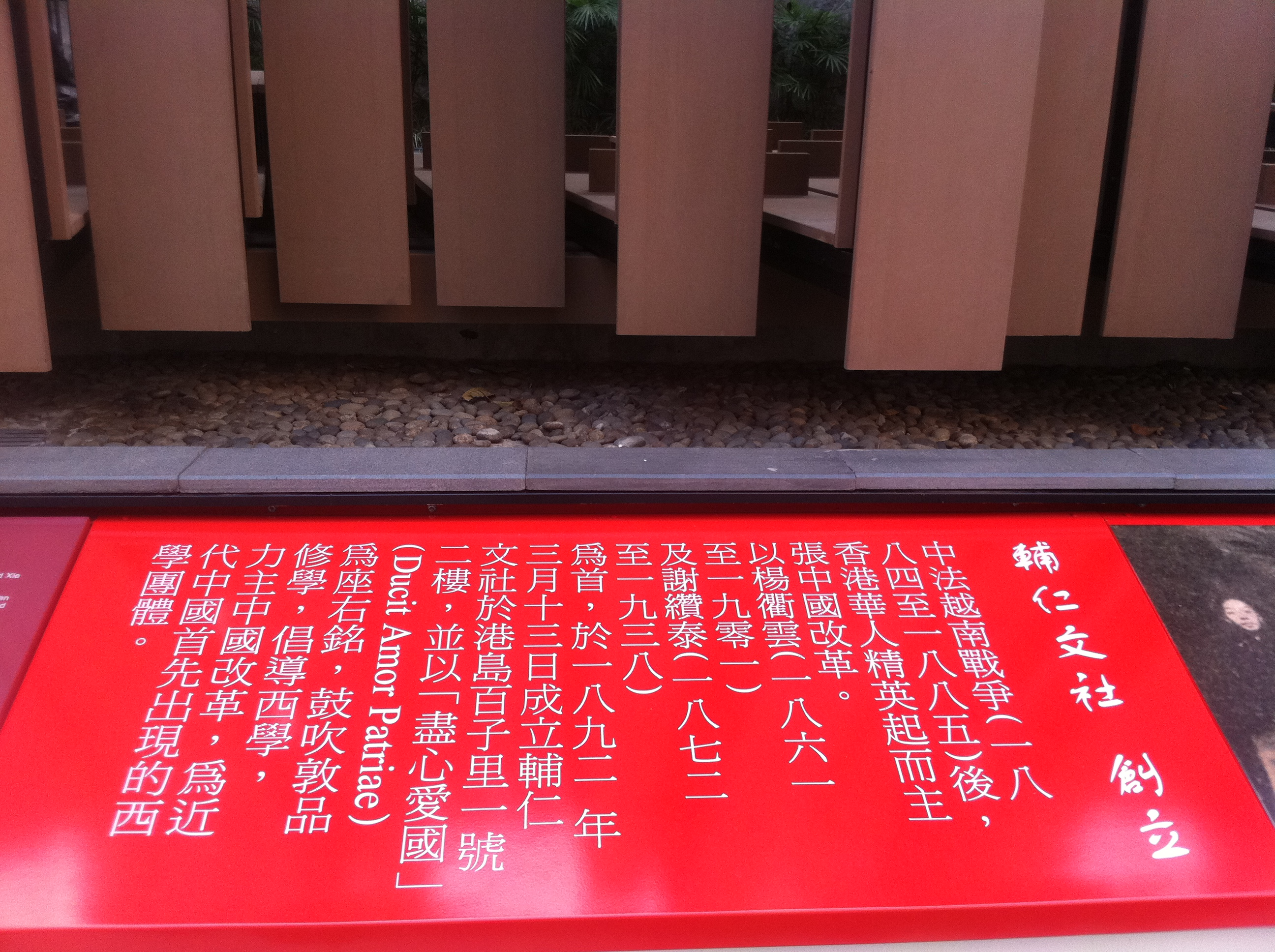 中文（香港）: 香港島 中環 百子里公園 輔仁文社, Furen Literary Society, Pak Tze Lane Park in Jan-2011